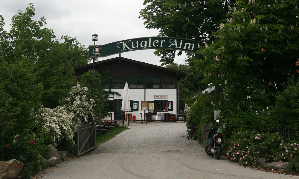 Restaurant “Kugler Alm” near Perlacher Forst, close to Deisenhofen